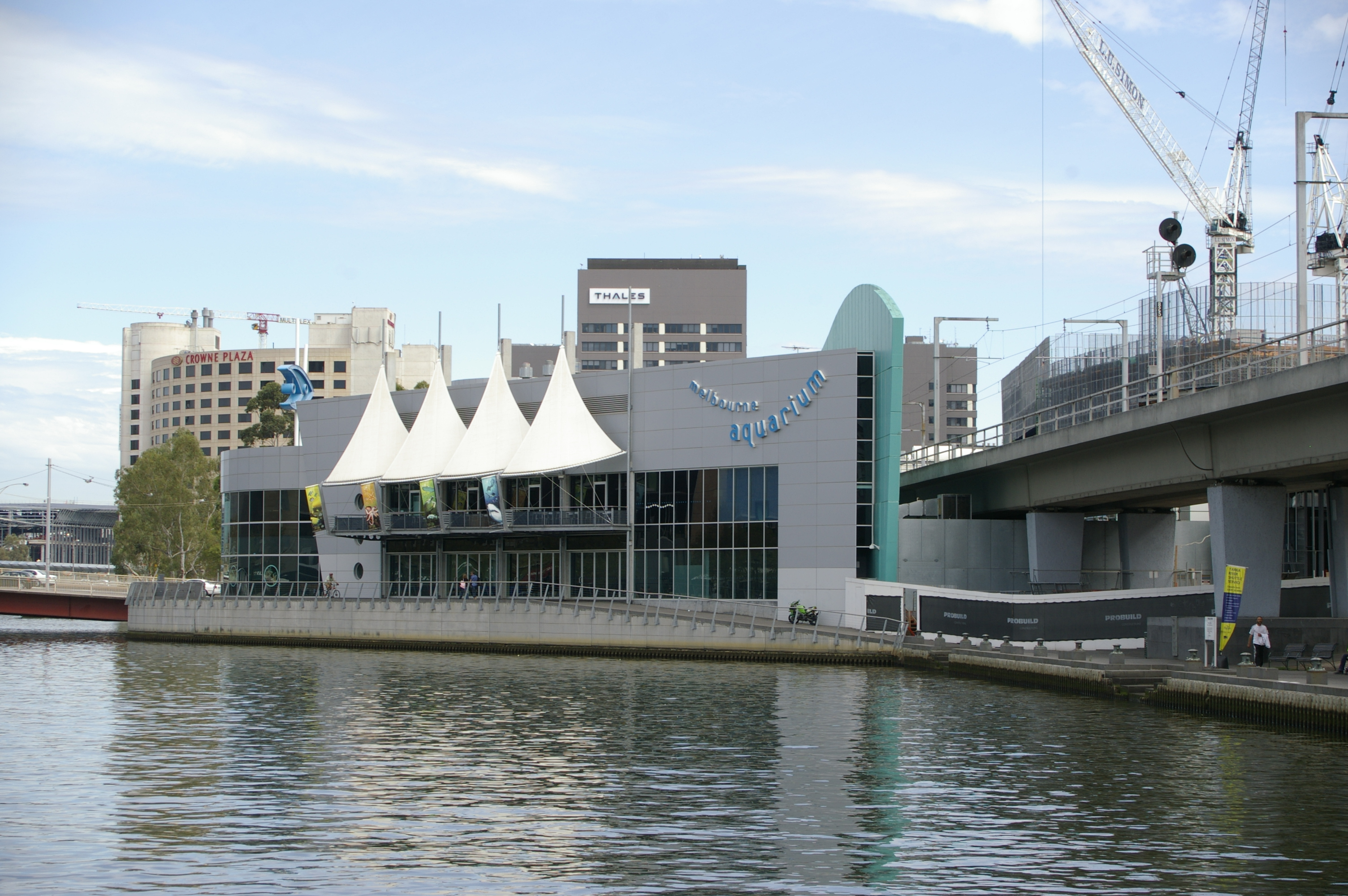 Melbourne Aquarium view near the Queens Bridge